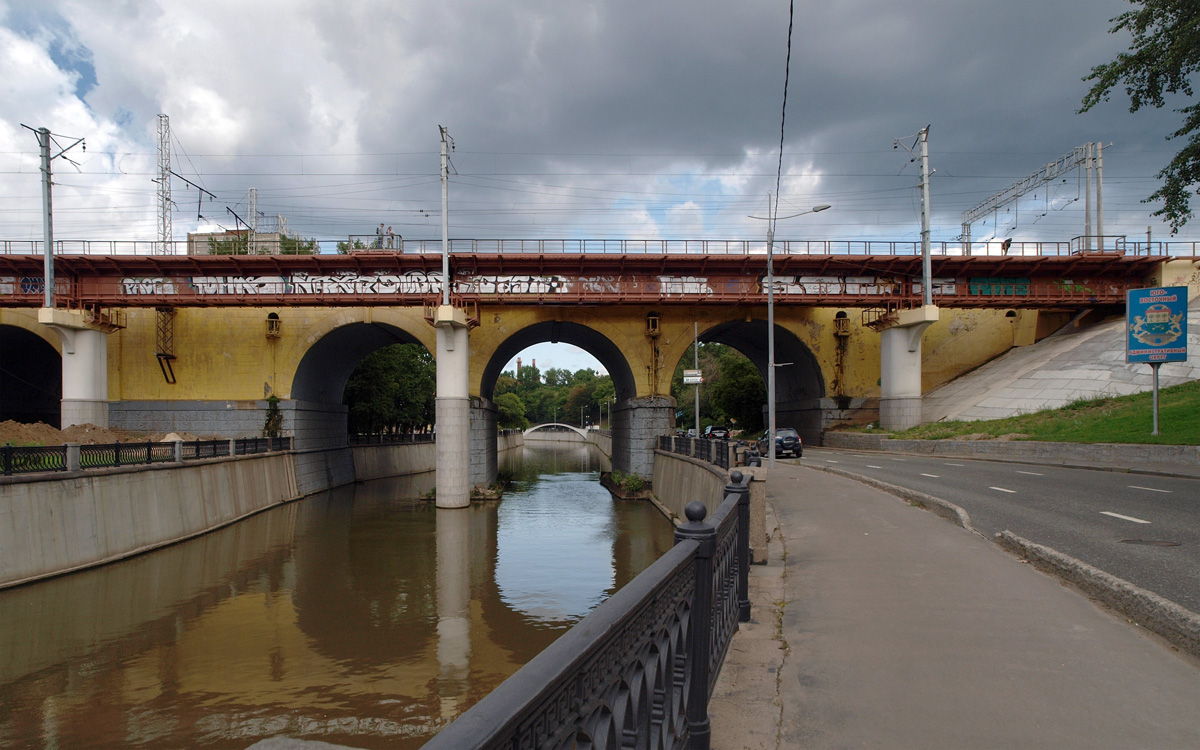 Andronikov Railway Bridge over the Yauza River, Moscow